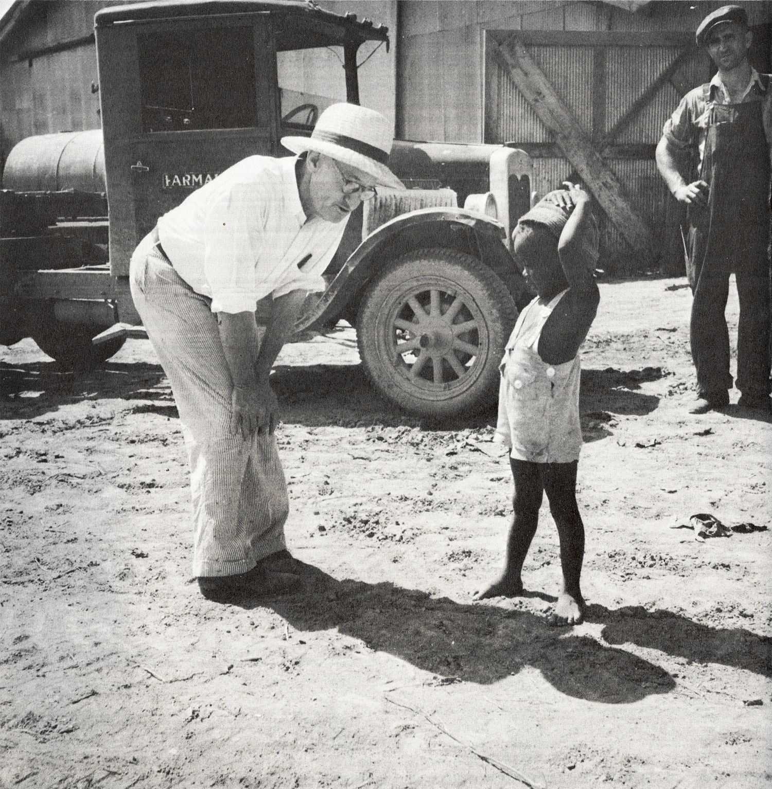 Image by Dorothea Lange. The owner of the Aldridge Plantation with one of the plantation children. Vicinity of Leland, Mississippi.